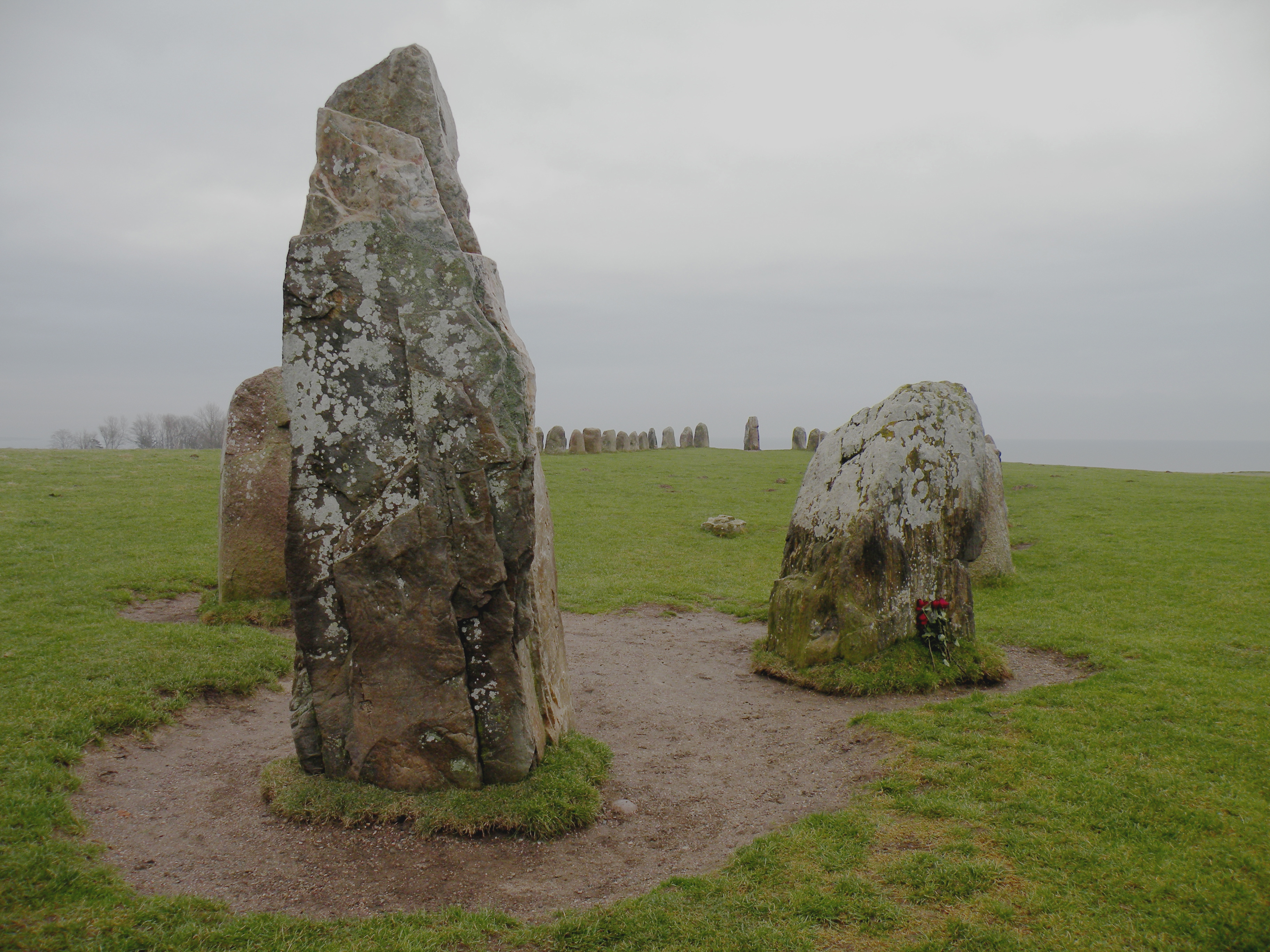 Megalith in the South Sweden